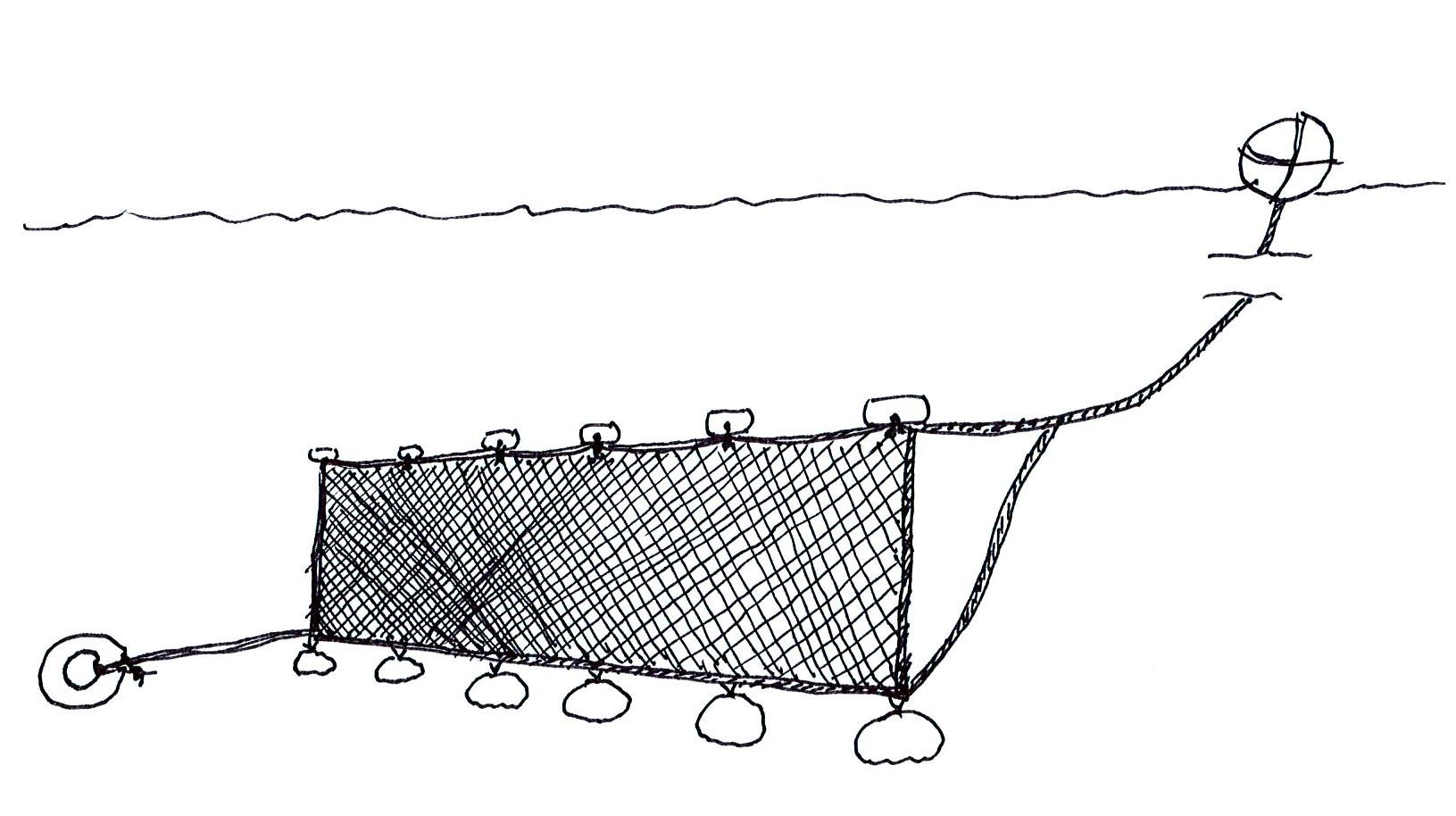 Tangle net